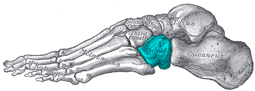 Skeleton of foot. Lateral aspect. Cuboid bone shown in blue.